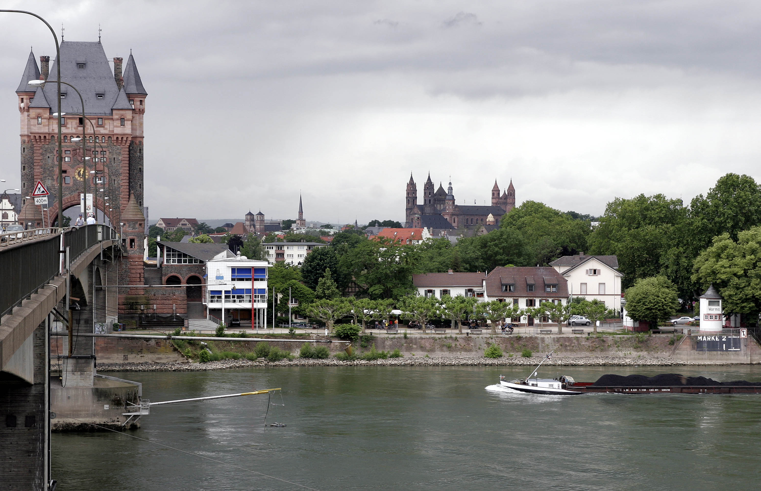 Worms (Germany), Nibelungen bridge, Dome and city. View from East (Hesse).